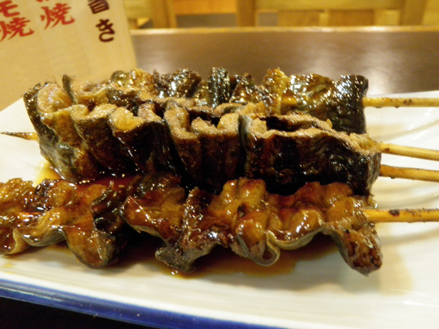 Spit-roasted lamprey. The specie may be Lethenteron japonicum. At the restrant in Asakusa, Tokyo, Japan.